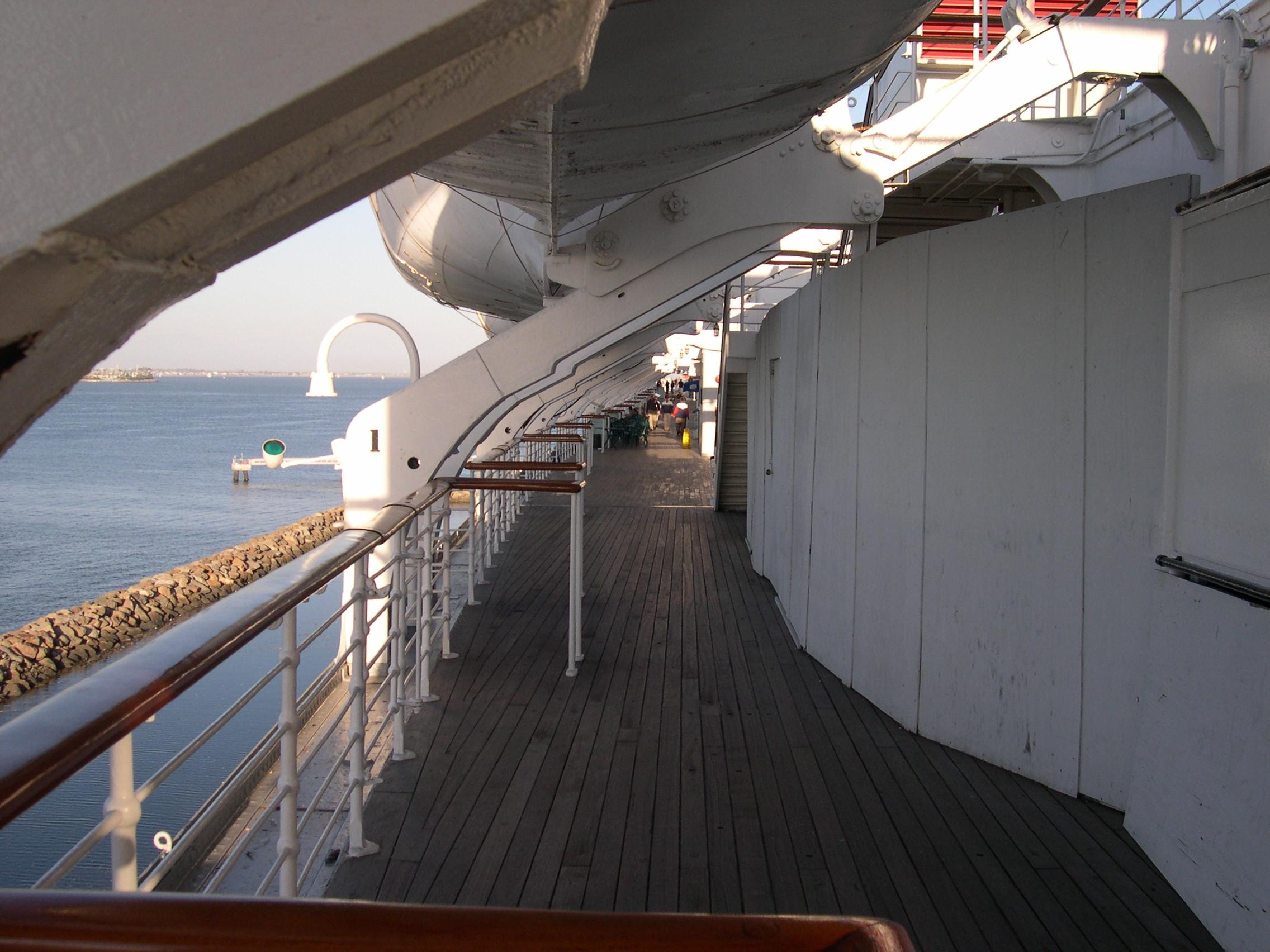 Lifeboats on deck RMS Queen Mary in Long Beach, CA Source: Photo by User:Sfoskett